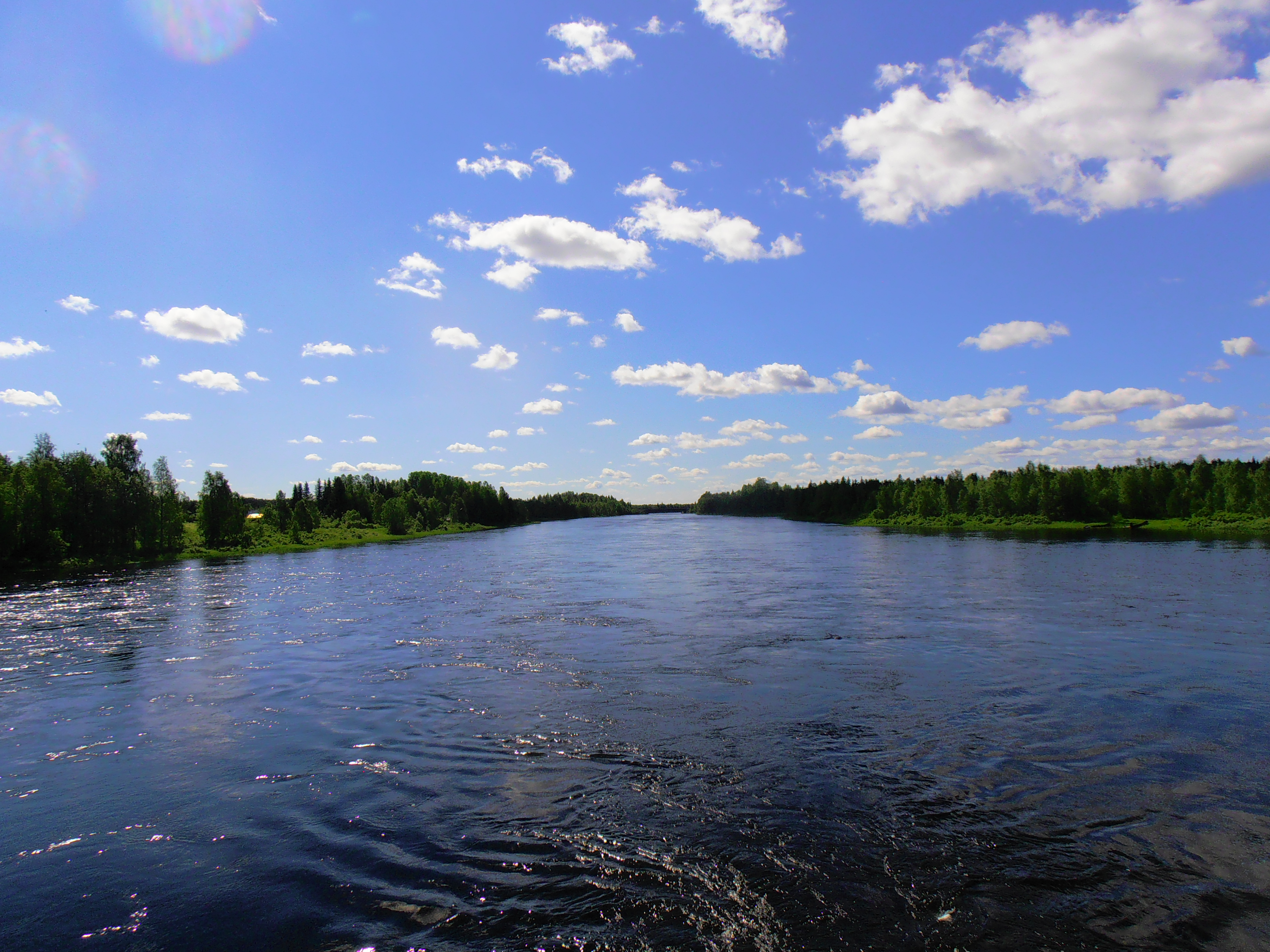 The Tärendö river, Tärendö